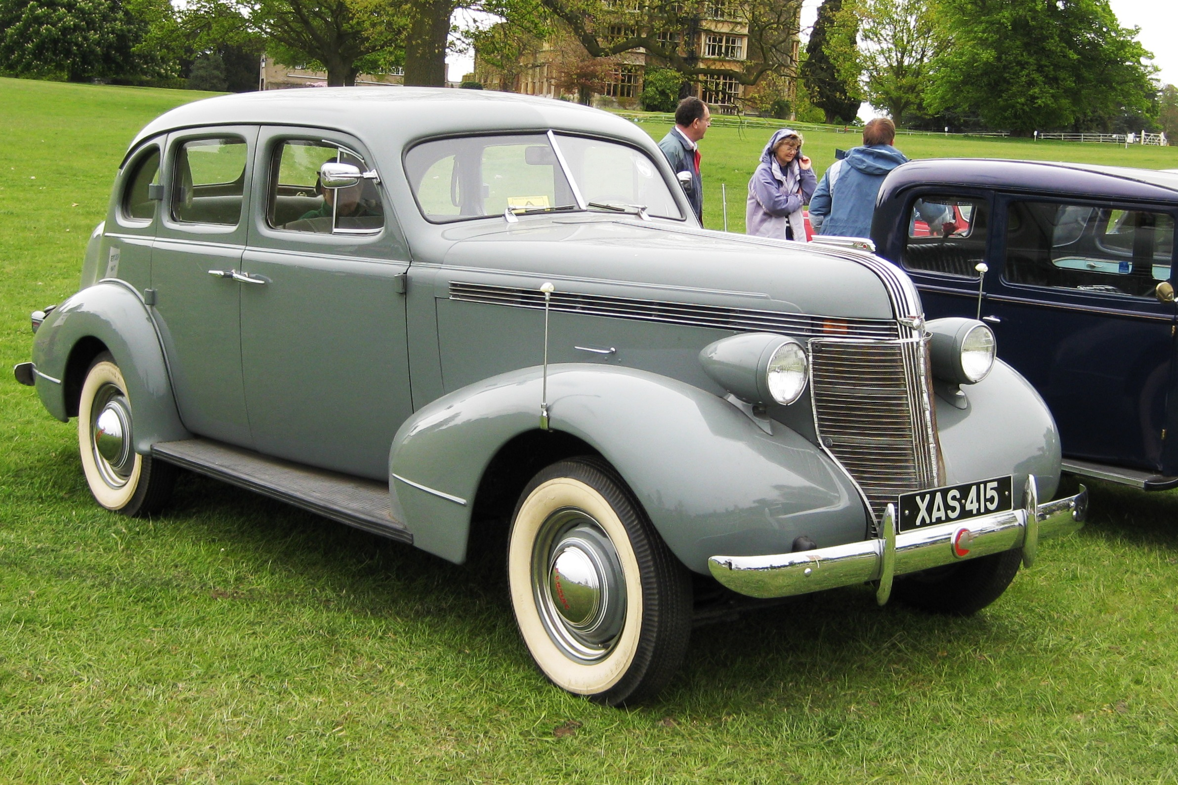 Pontiac sedan manufactured 1937